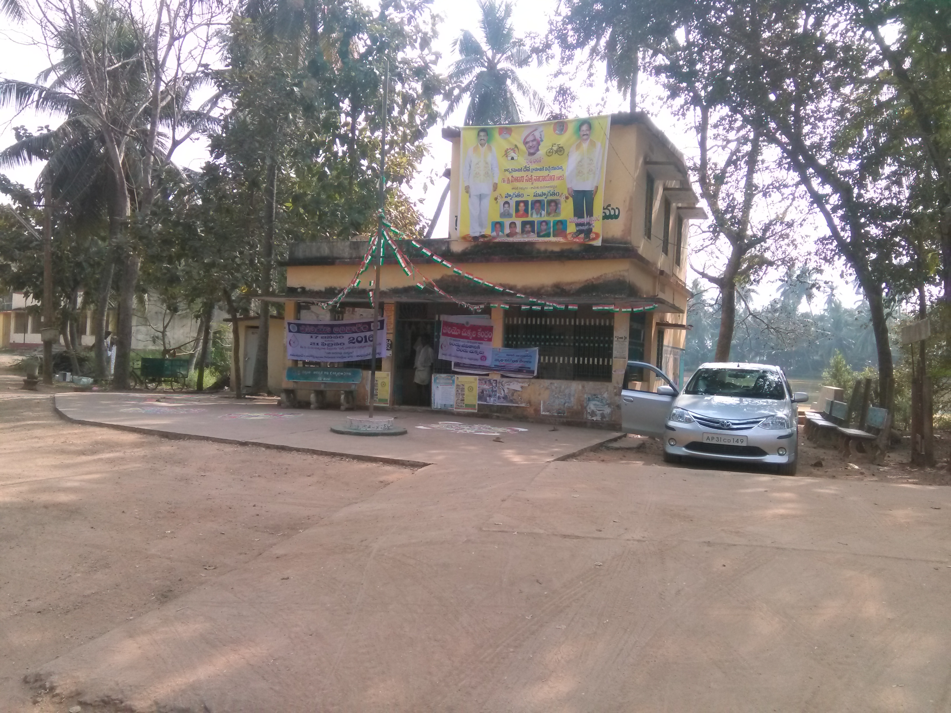 A.P. Village of Deva -Panchyat Office